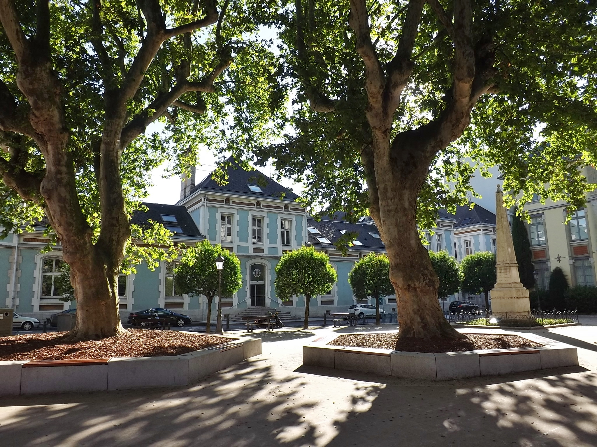 Sight of the square Gilbert Durand place, with visible the obelisk and the head office of the Université Savoie Mont-Blanc university, in Chambéry, Savoie, France.